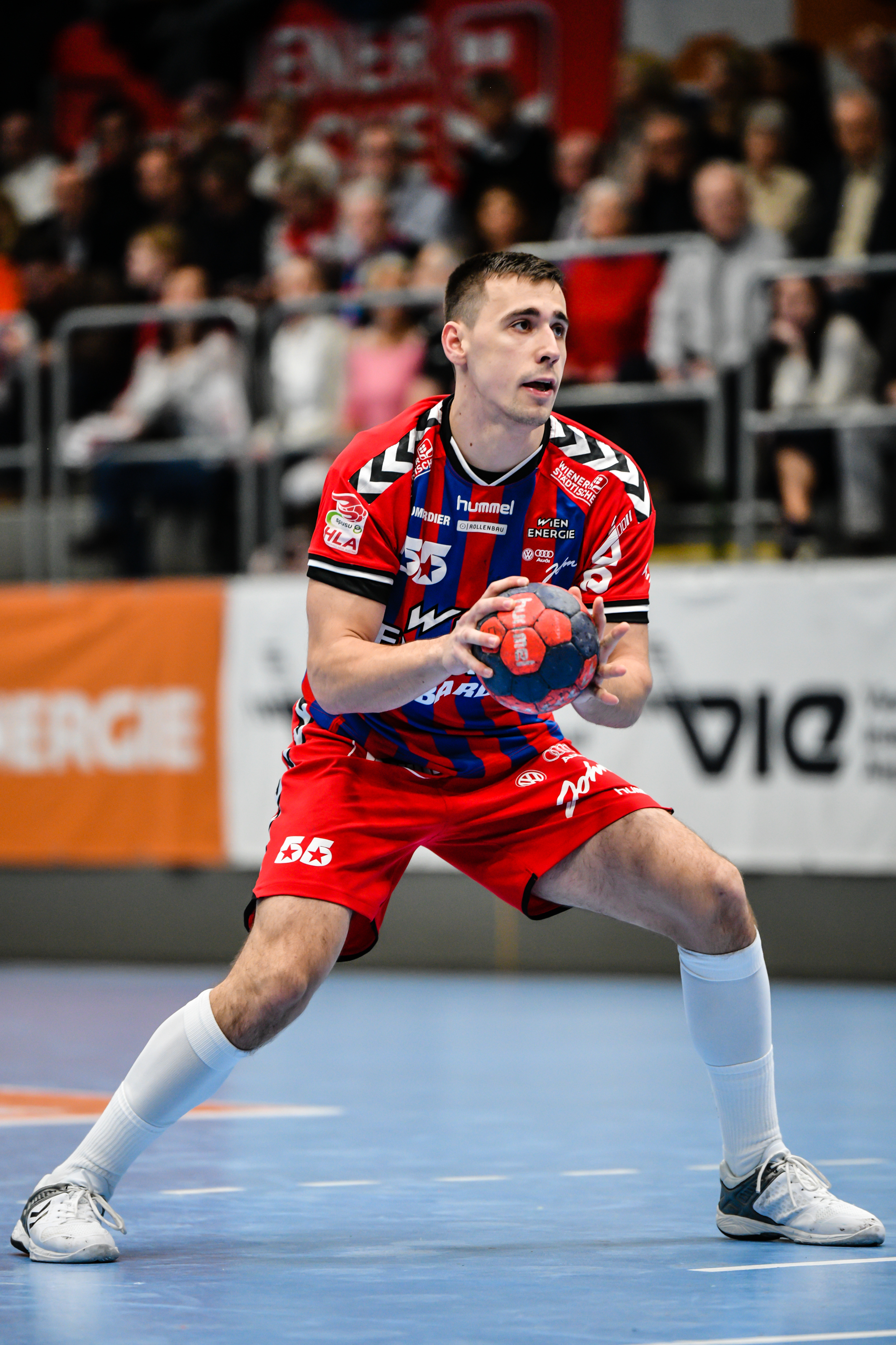 Hanball league Austria (HLA) Fivers Margareten vs. SG INSIGNIS Handball WESTWIEN, Picture shows MARTINOVIC, Marin.